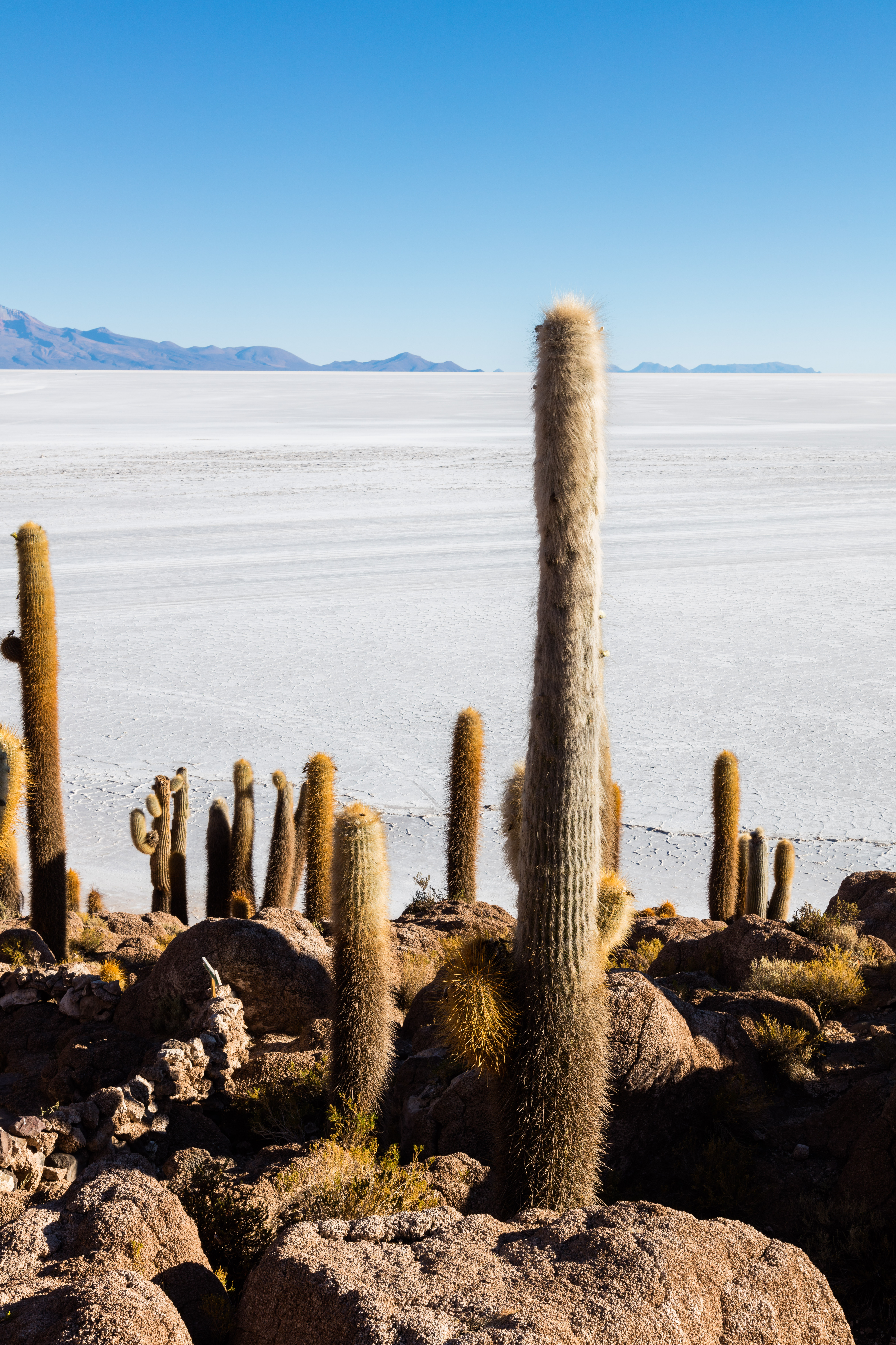 Giant cactus (Echinopsis atacamensis), Isla Incahuasi, Salt flat of Uyuni, Bolivia